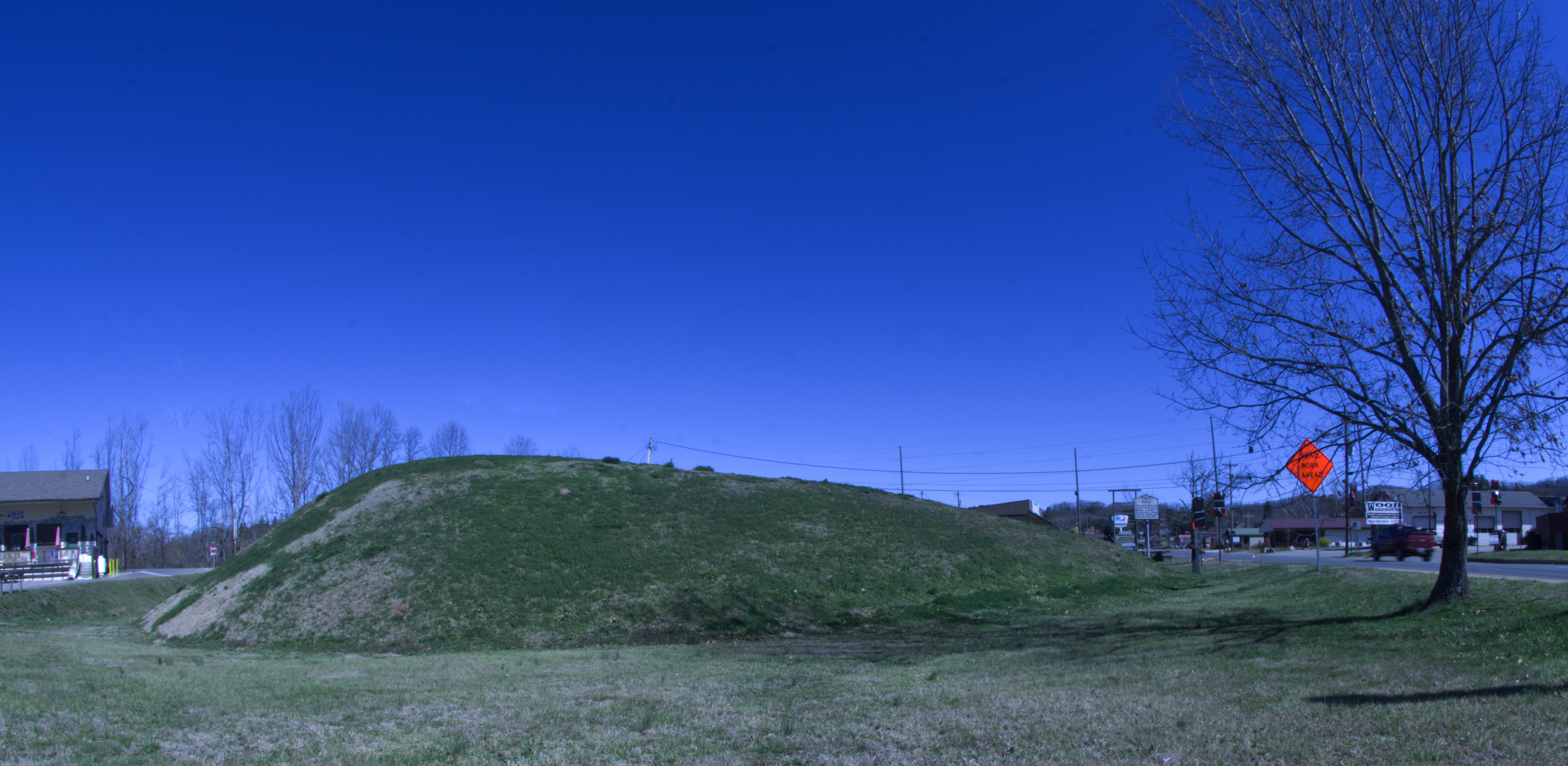 East Main St./NC 28 can be seen at the right side of the photo. It passes in front of the mound’s ramp, which faces SE. The mound was more topographically prominent prior to the placement of the fill upon which the structure seen at the far left of the photo sits. Photo shot with a Pentax K-3 II camera using a Sigma 10mm f/2.8 EX DC Fisheye lens.